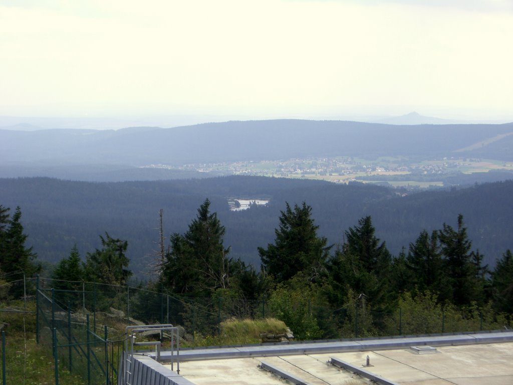 View from the Schneeberg mountain in the Fichtelgebirge of the Fichtelsee und Mehlmeisl. Bavaria, Germany